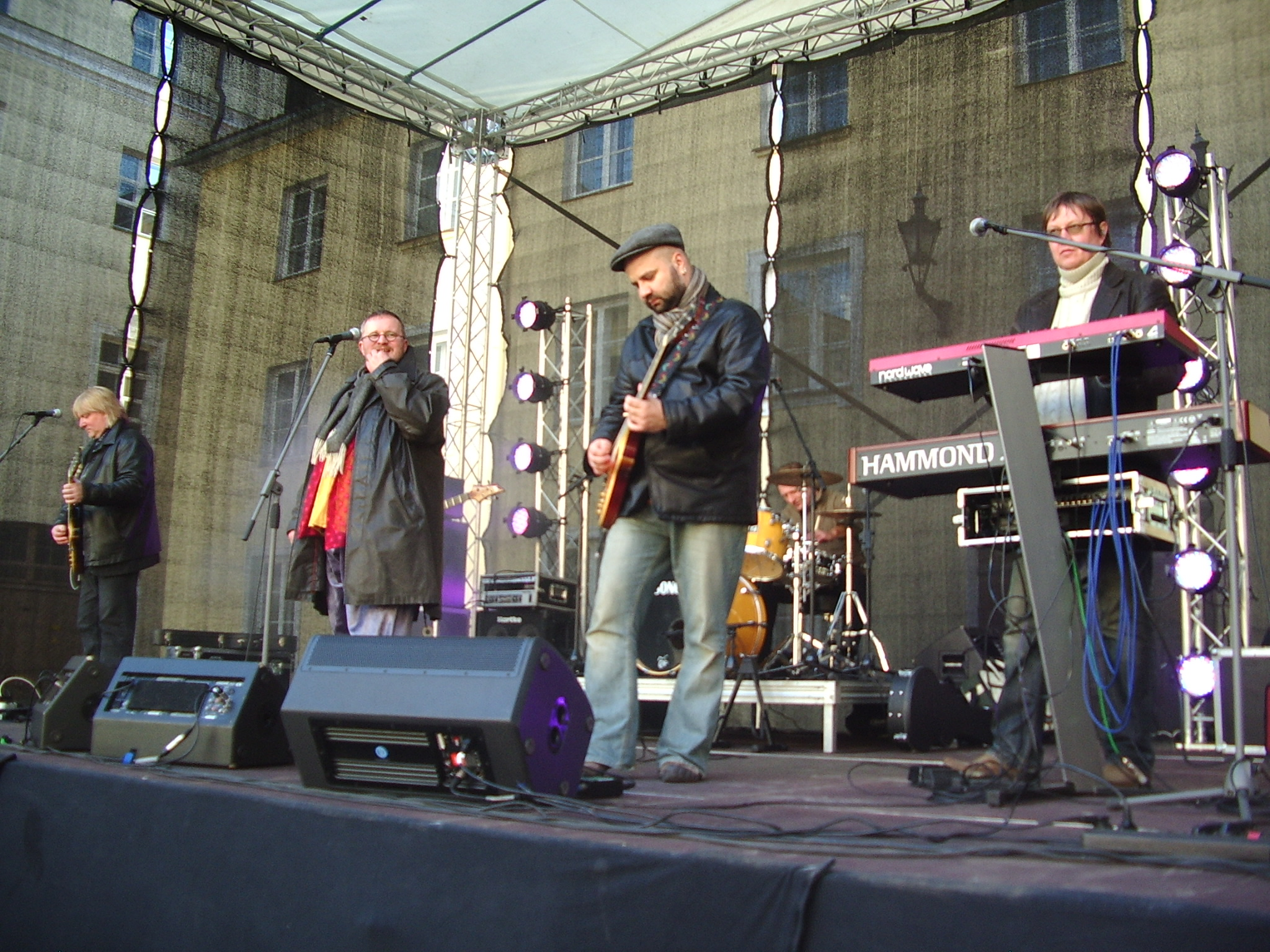 Estonian band called Singer Vinger performing in Toompea